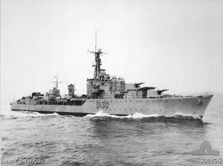 AWM Caption: 1952-11-27. Starboard bow view of the tribal class destroyer HMAS Arunta (D130). She is shown after a modernization refit during 1950 to 1952.